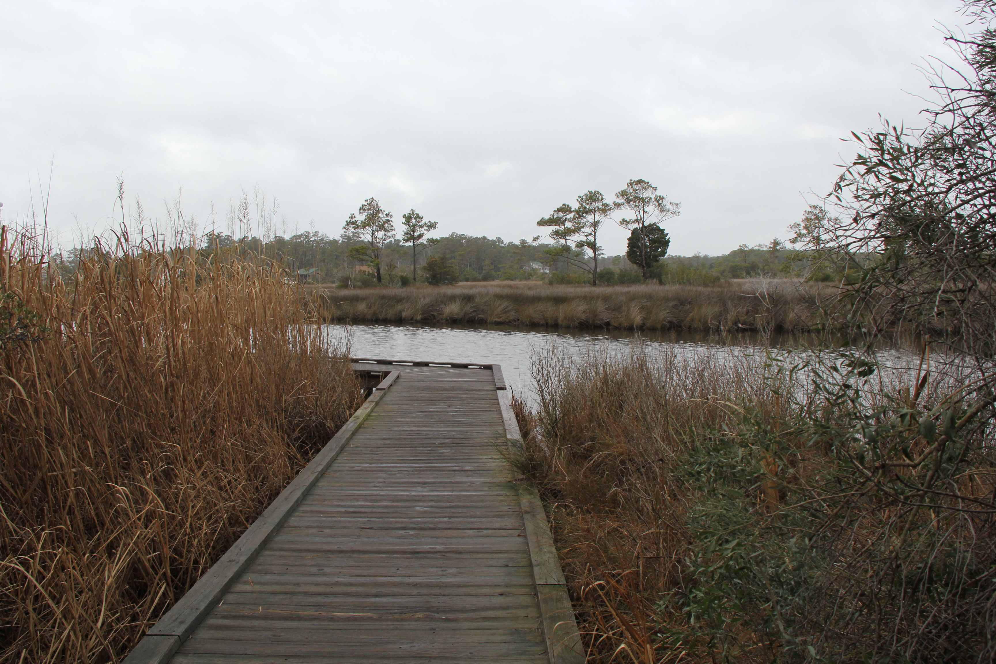 Weekend trip to Nagshead, NC 1/10-1/12/14. Roanoke Island Festival Park.